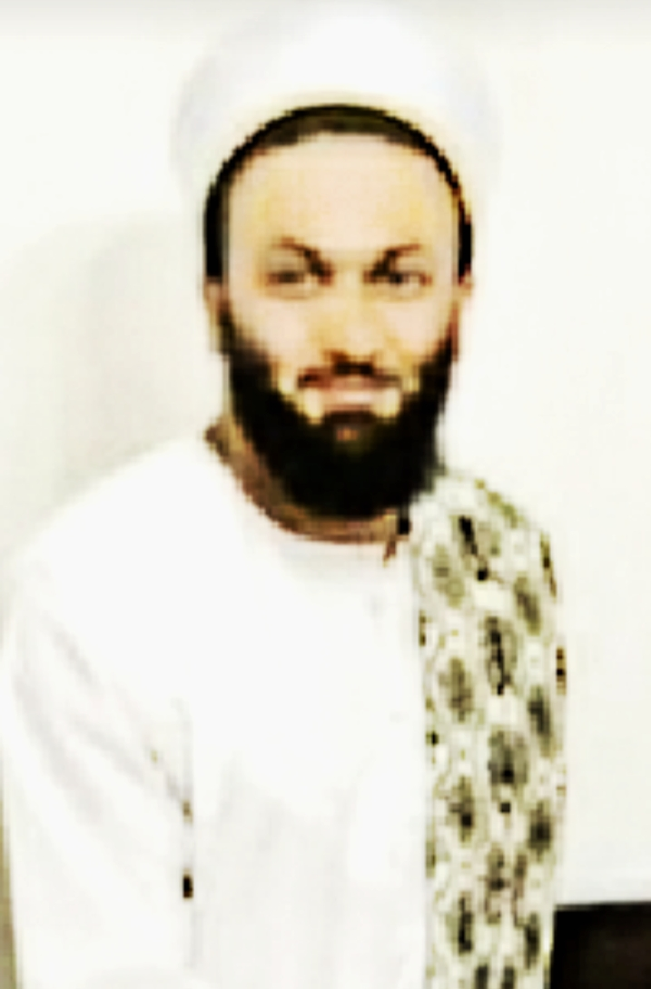 Photo